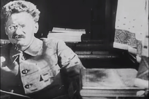 Leon Trotsky 1917ish.